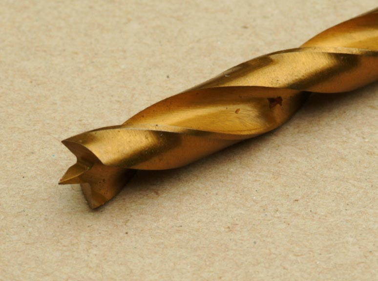 Lip and spur twist drill bit. 10.5 mm diameter bit retailed by Axminster Power Tool, UK, in 2004. Photo made UK, June 2005. TiN coated.